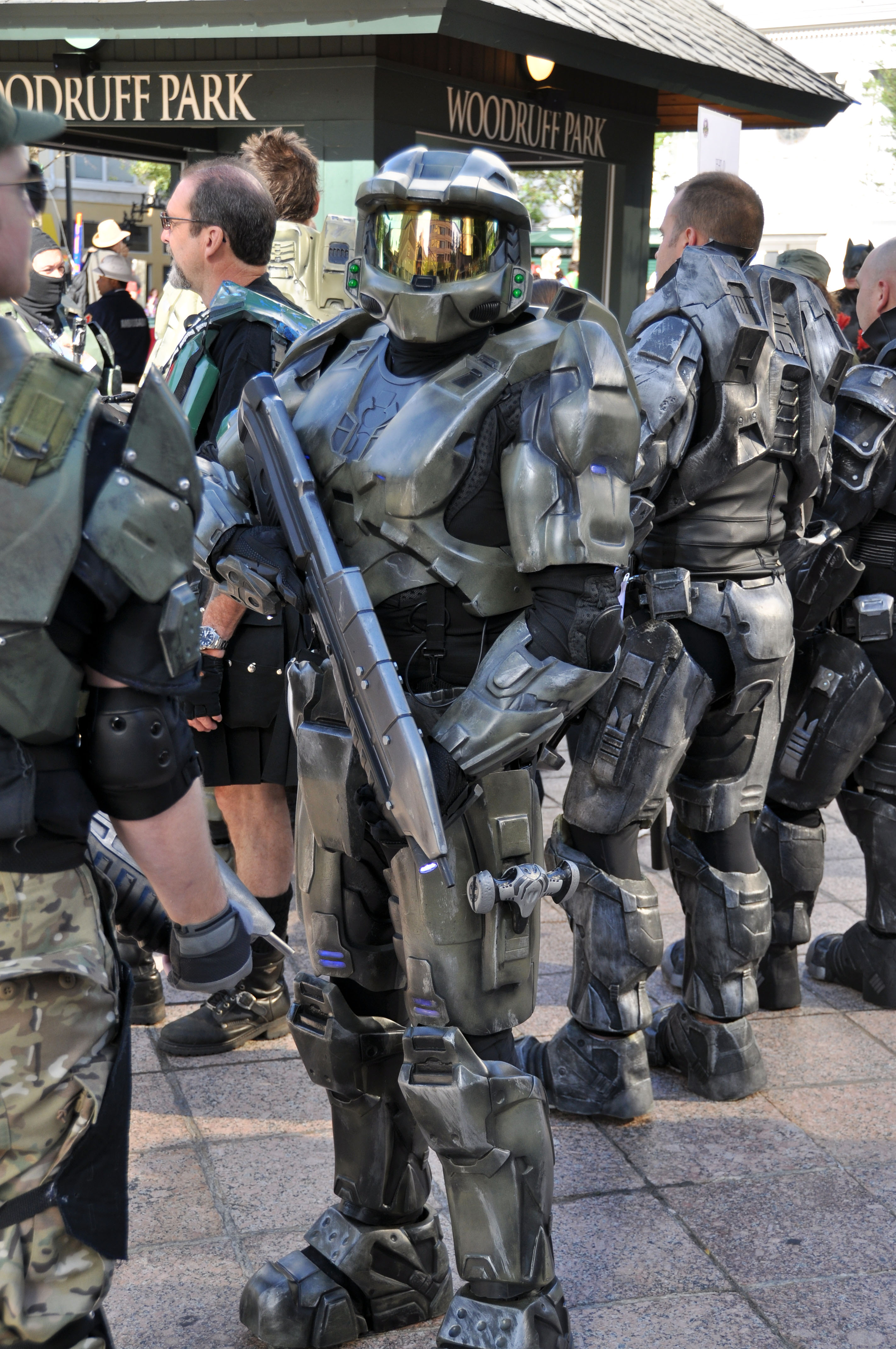 Master cheif at Atlanta Dragon Con Parade 2010.